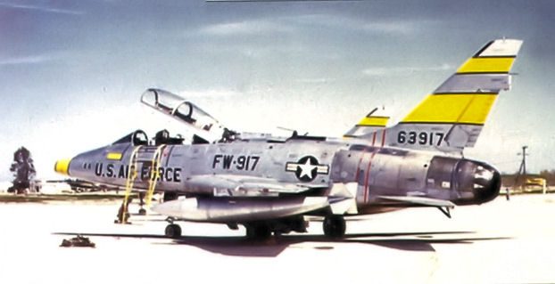 4510th Combat Crew Training Wing - North American F-100F-10-NA Super Sabre 56-3917, 4515th Combat Crew Training Squadron